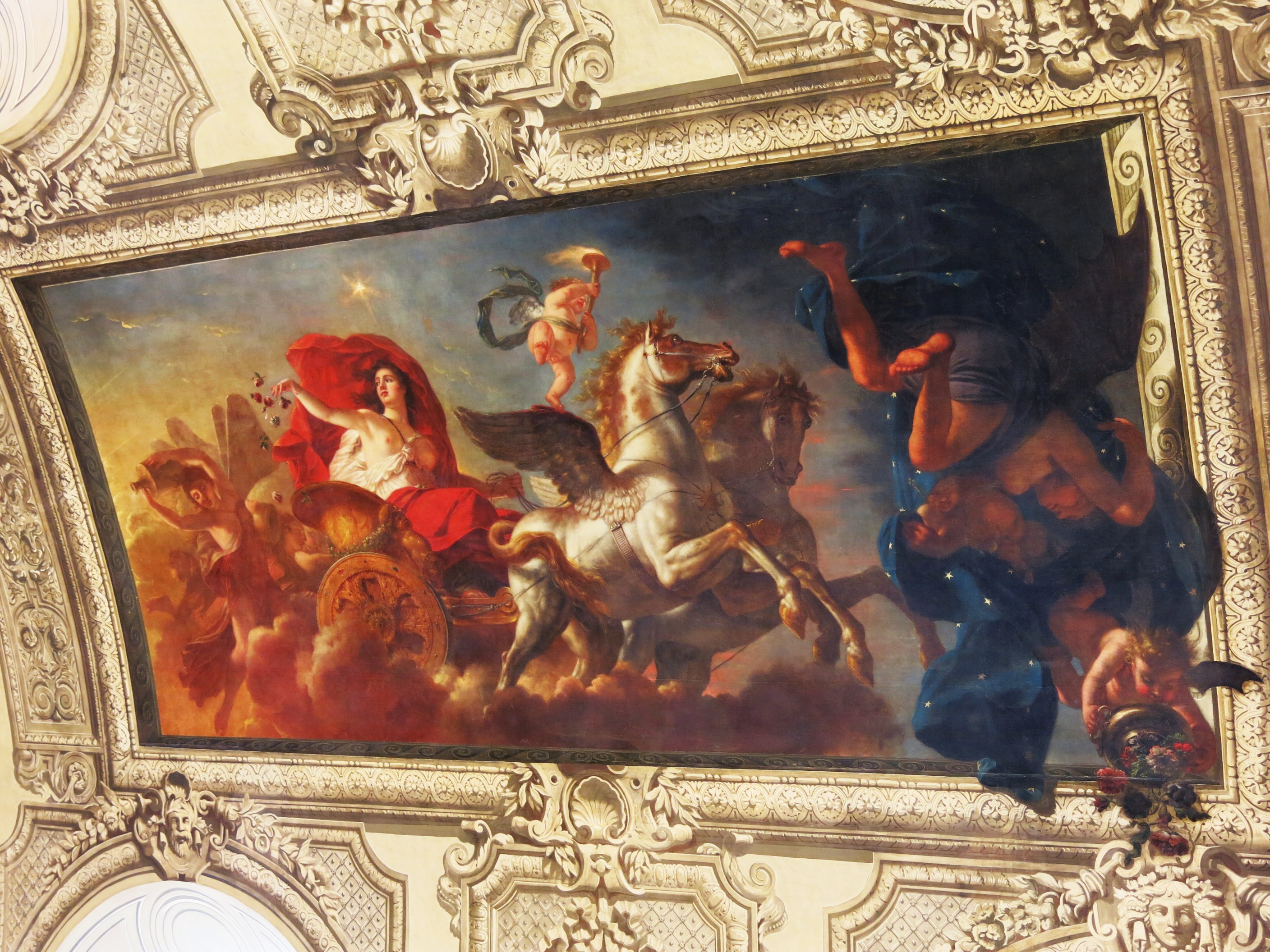 Painting of sunrise of Aurora in the annex of the library of the Palais du Luxembourg (Paris, France). Antoine-François Calet (1741-1823).